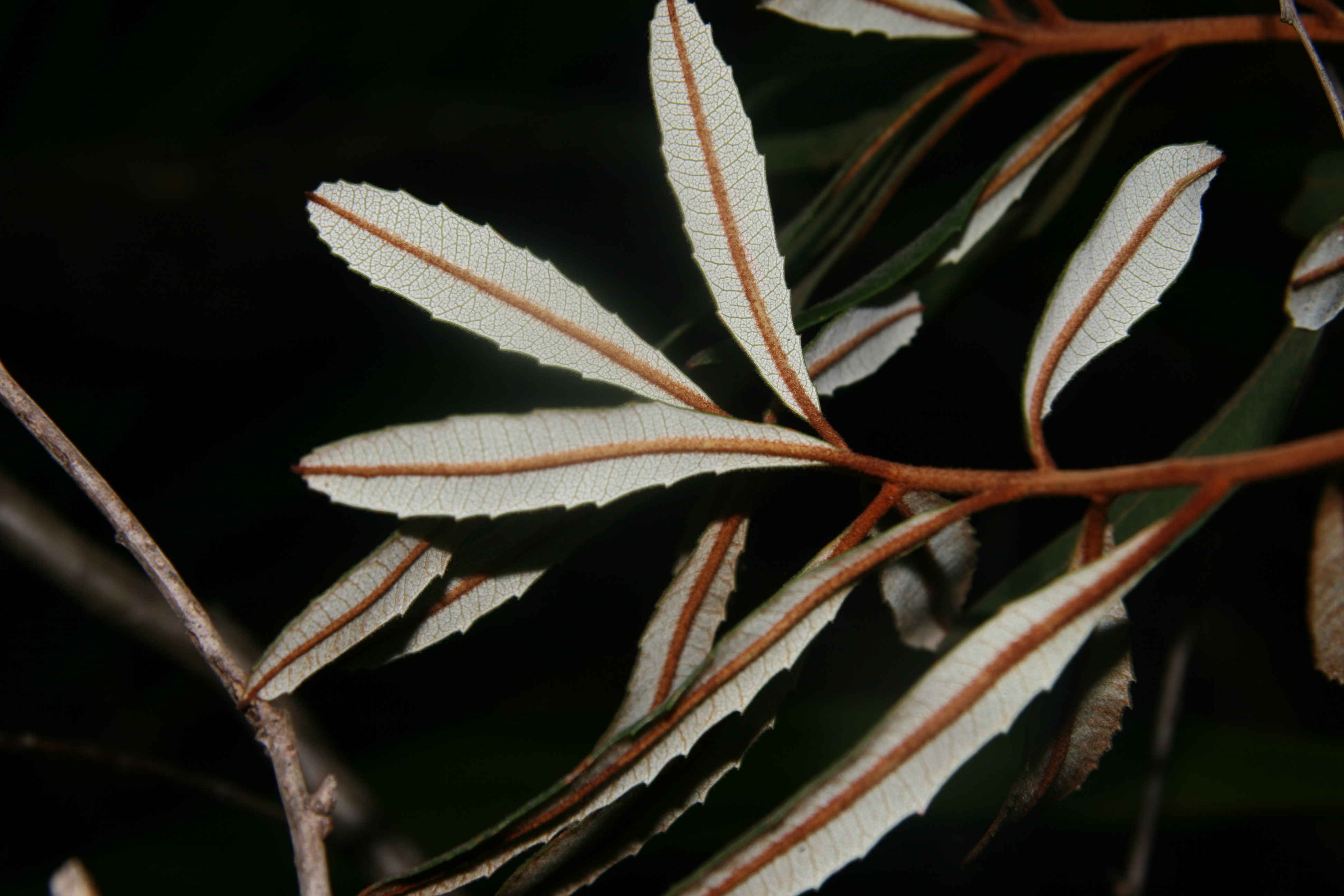 Banksia oblongfolia (underside of leaves showing midrib), Bottle Forest (East Heathcote), Royal National Park